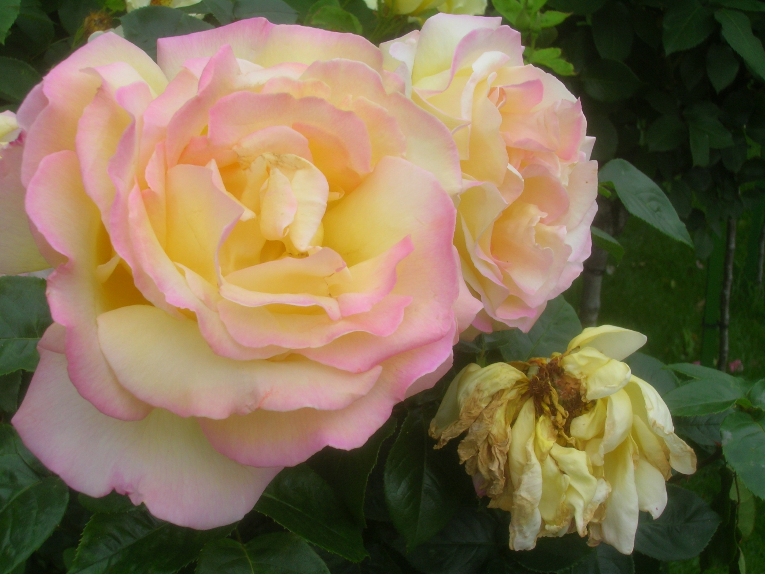 Rosa 'Gloria Dei' in the Volksgarten in Vienna.